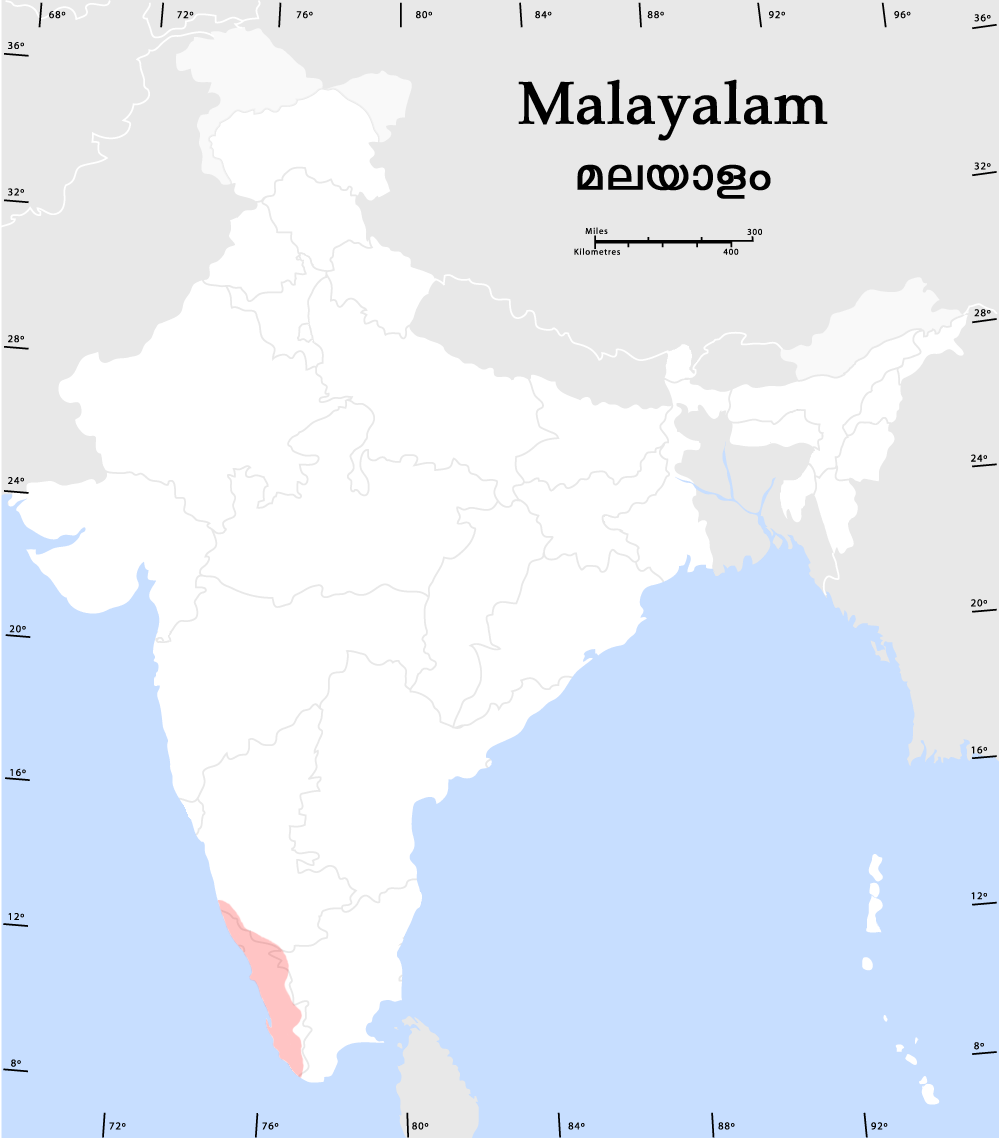 A map of the distribution of native Malayalam speakers in India